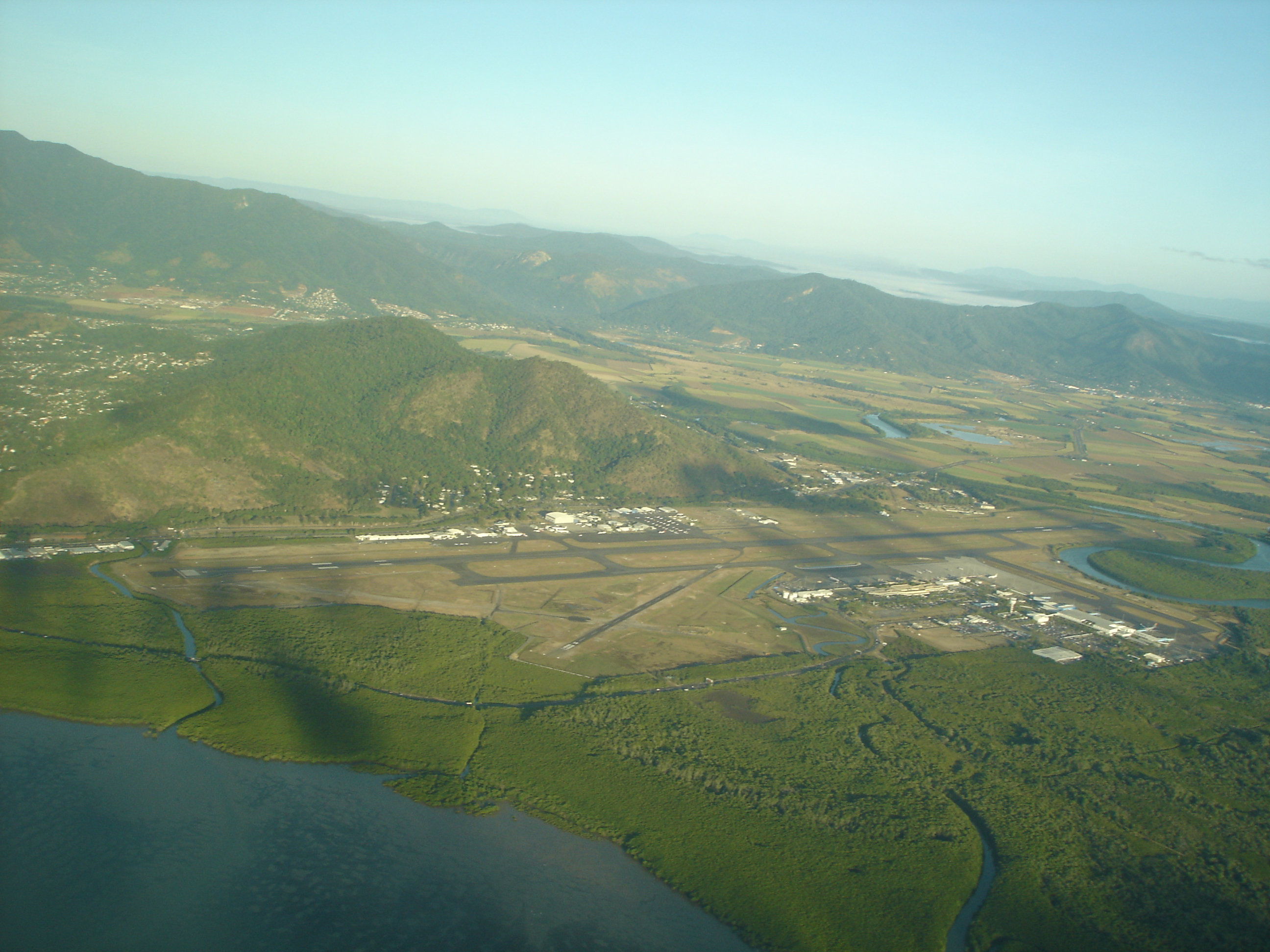 Cairns International Airport